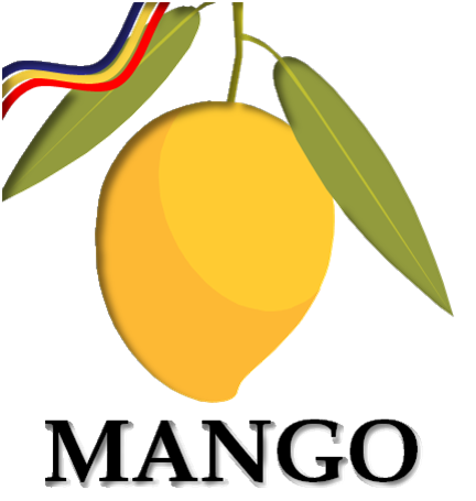 Generic image of a Mango, which is also the party symbol of Pattali Makkal Katchi (PMK) a regional political party in India.